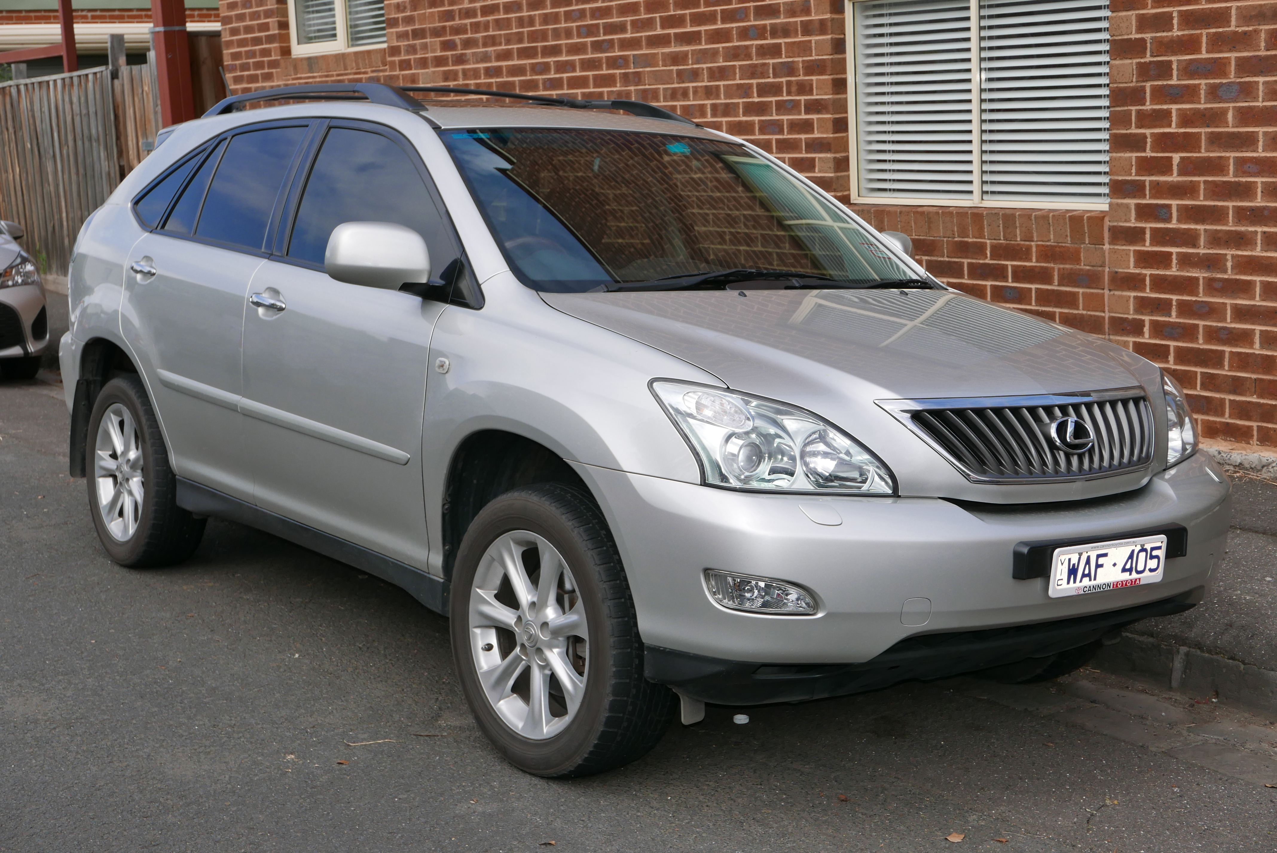 2007 Lexus RX 350 (GSU35R MY07) Sports Luxury wagon. Photographed in Fitzroy North, Victoria, Australia. Vehicle registration enquiry resultsJurisdictionVictoriaRegistrationWAF405Chassis codeJTJHK31U202851718Engine code2GRA275315Compliance date2007-10Year of manufacture2007